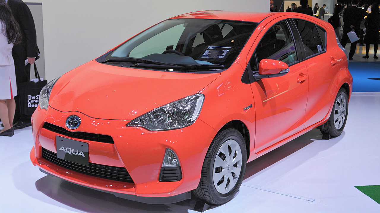 Toyota Aqua (Tokyo Motor Show 2011)